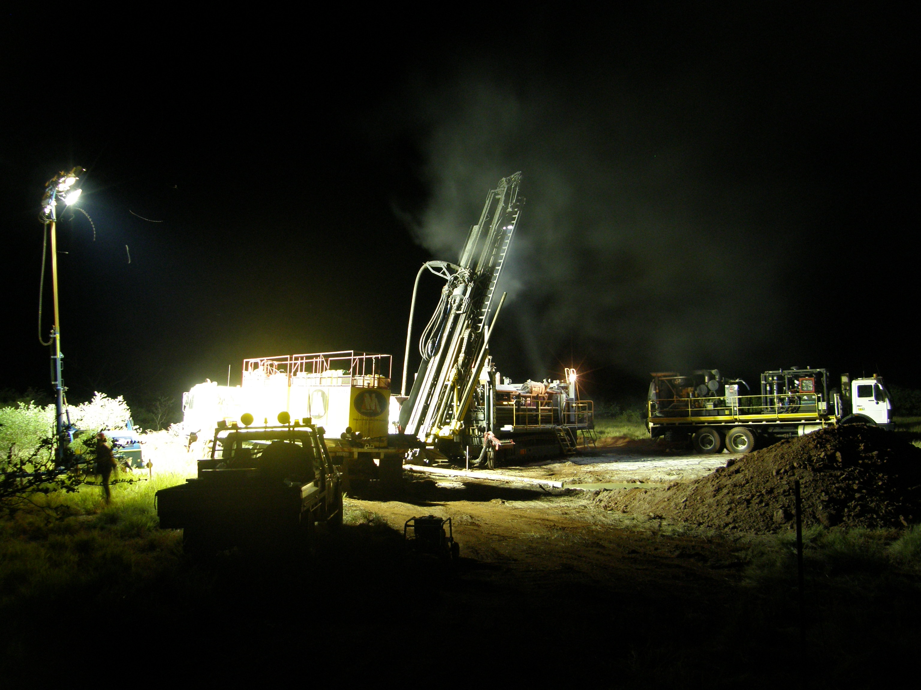 Iron ore exploration in the Pilbara, Western Australia, using RC drilling